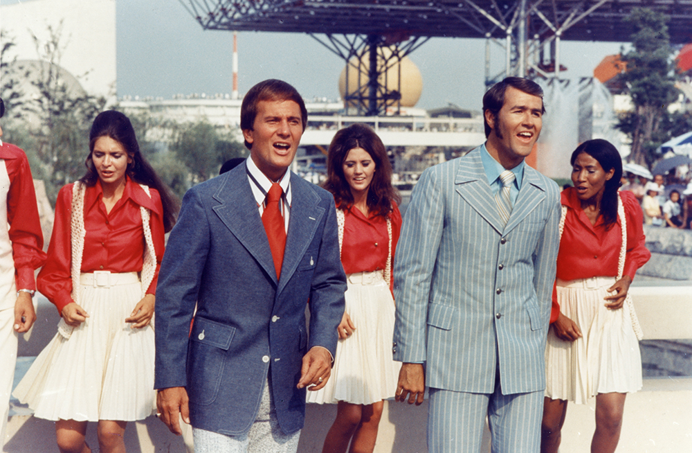 Richard Roberts and Pat Boone at the 1970 World's Fair in Osaka, Japan